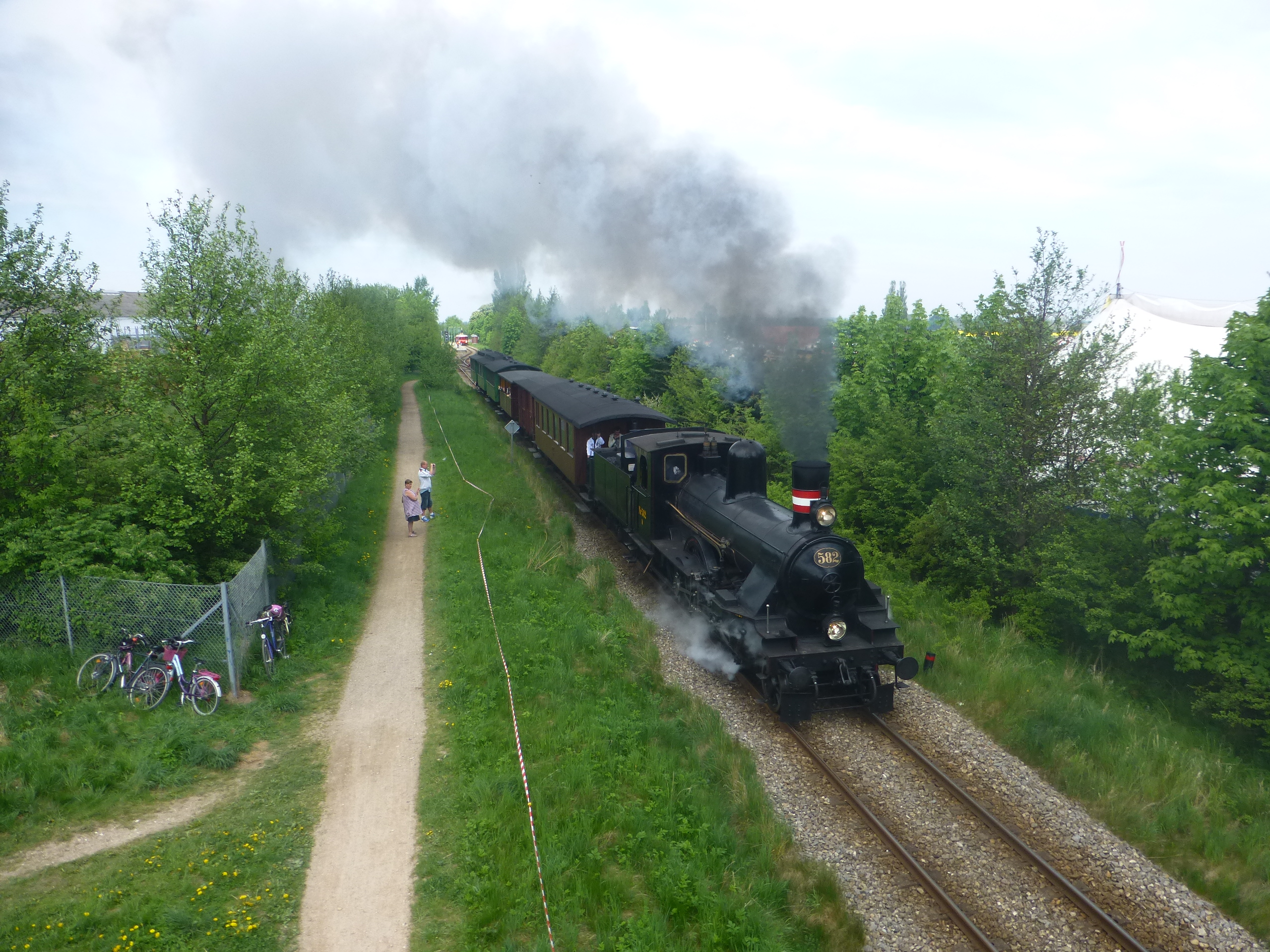 Danish steam locomotive DSB K 582, now belonging to Nordsjællands Jernbaneklub, with heritage train at Græsted.